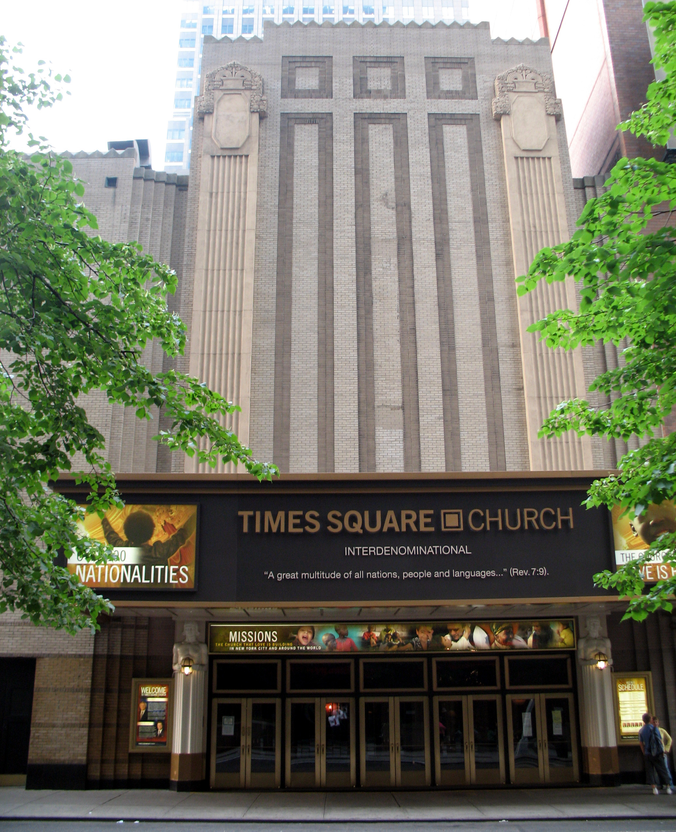 Looking north across 51st Street at Times Square Church - Photo by poster in June 2007.